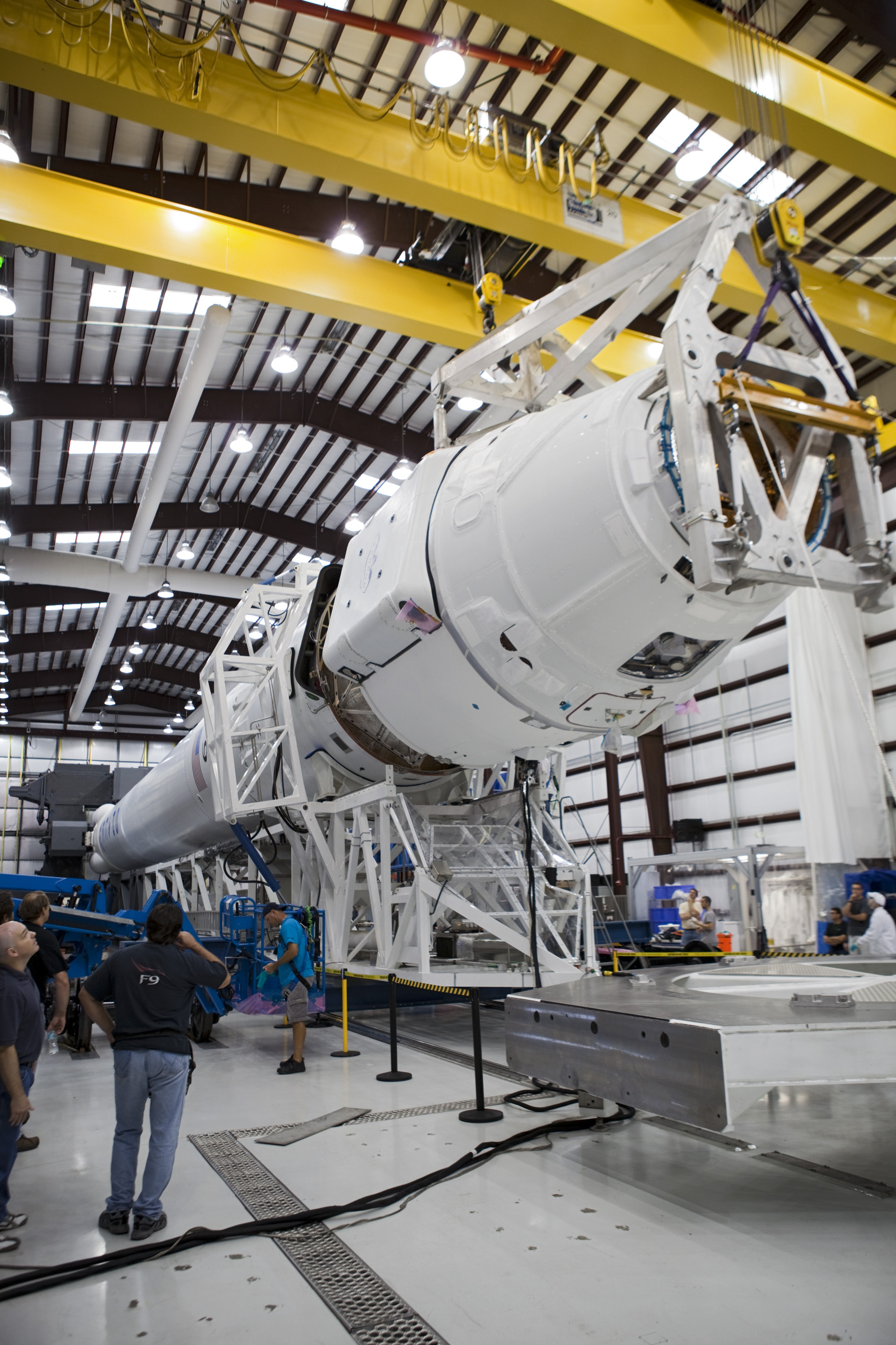 CAPE CANAVERAL, Fla. - Space Exploration Technologies, or SpaceX, technicians attach a Dragon spacecraft to its Falcon 9 launch vehicle. The rocket is being prepared for the company's first Commercial Resupply Services, or CRS-1, mission to the International Space Station. The capsule is scheduled to lift off on Oct. 7, 2012 from Space Launch Complex 40 at Cape Canaveral Air Force Station in Florida aboard a Falcon 9 rocket. The mission will be the company's second demonstration test flight for NASA's Commercial Orbital Transportation Services Program, or COTS. The SpaceX CRS contract with NASA provides for 12 cargo resupply missions to the station through 2015, the first of which is targeted to launch in October 2012.SpaceX became the first private company to berth a spacecraft with the space station in 2012 during its final demonstration flight under the Commercial Orbital Transportation Services, or COTS, program managed by NASA's Johnson Space Center in Houston.